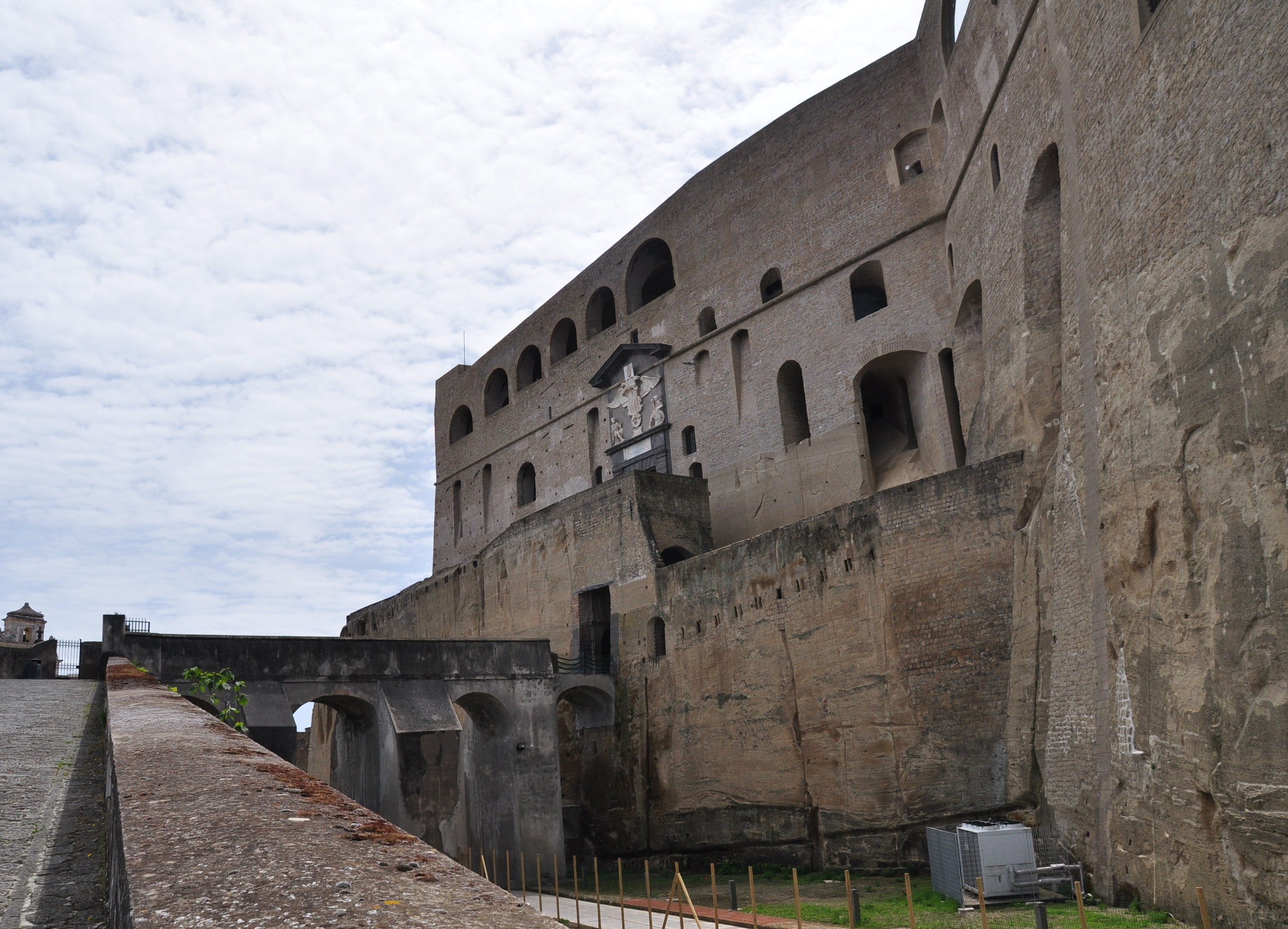 Castel Sant'elmo, Naples Italy